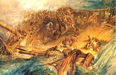 The Loss of an East Indiaman (formerly Loss of a Man of War), depicting the shipwreck of the Halsewell East Indiaman on 6 January 1786, off the Isle of Purbeck, Dorset, England. Painted by Joseph Mallord William Turner circa 1818, watercolour on paper, 280 x 395 mm; Collection of trustees of the Cecil Higgins Art Gallery, Bedford, England